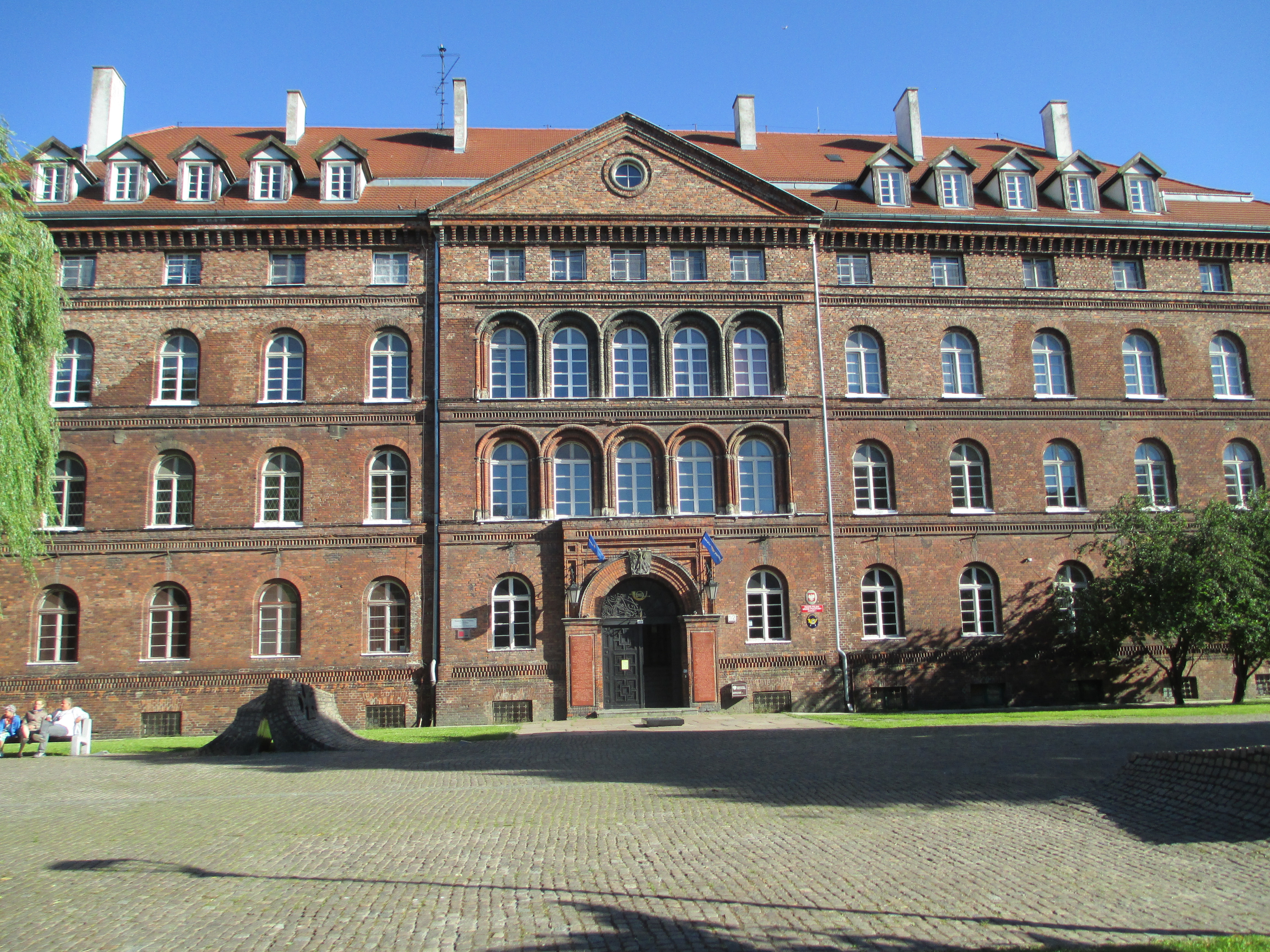 polish post office building in gdansk